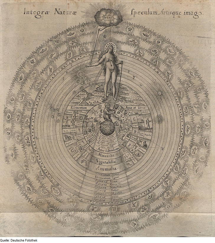 Original image description from the Deutsche Fotothek Theosophie & Philosophie & Judentum & Kabbala & Kunst & Technik